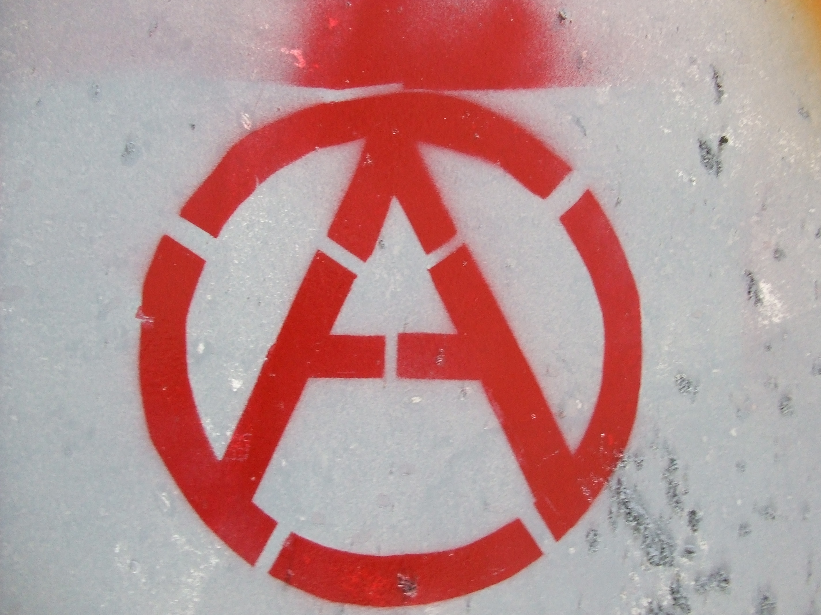 A piece of Stencil Art.